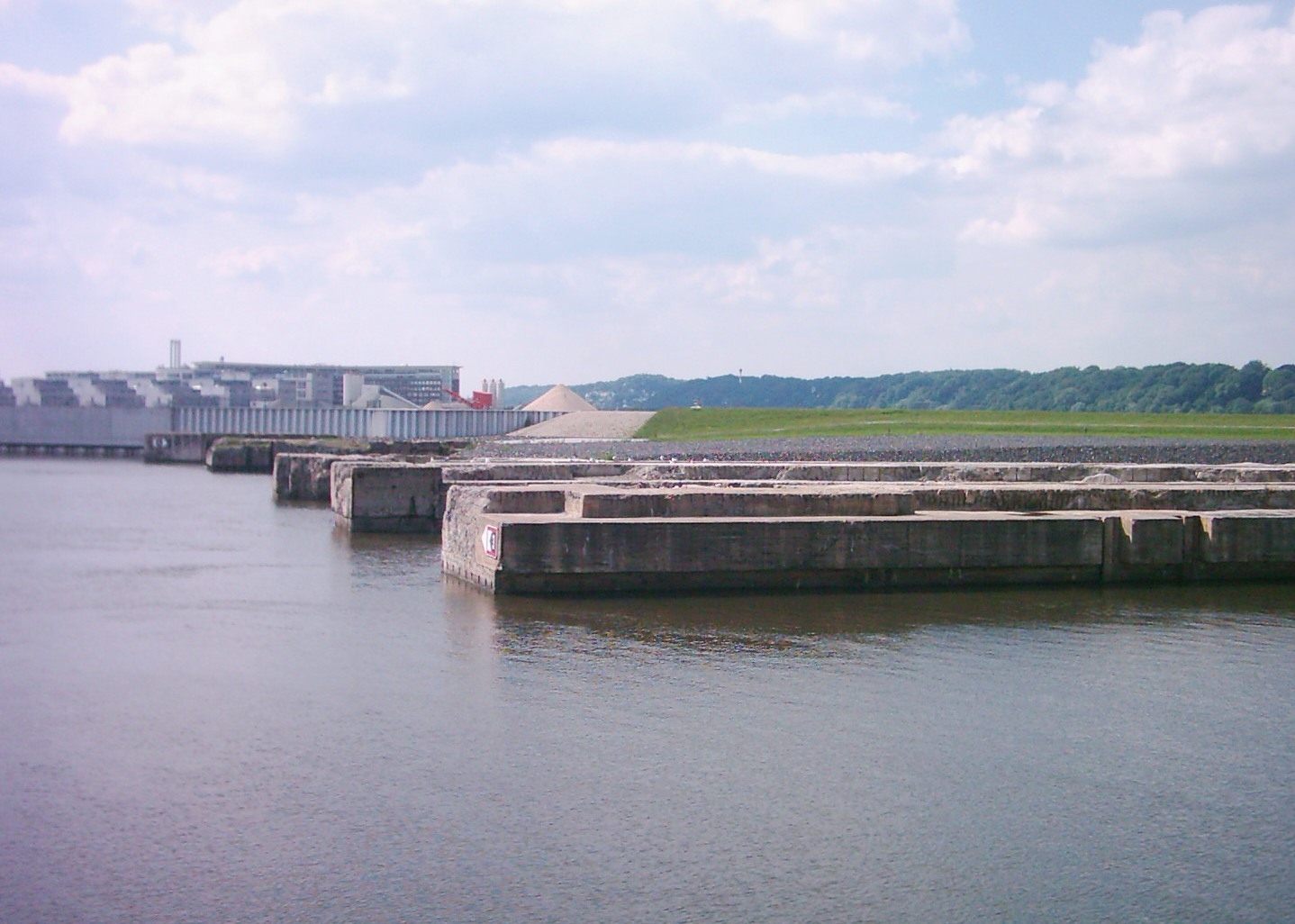 U-Boot-Bunker Finkenwerder, a World War II submarine bunker in Hamburg-Finkenwerder, Germany.